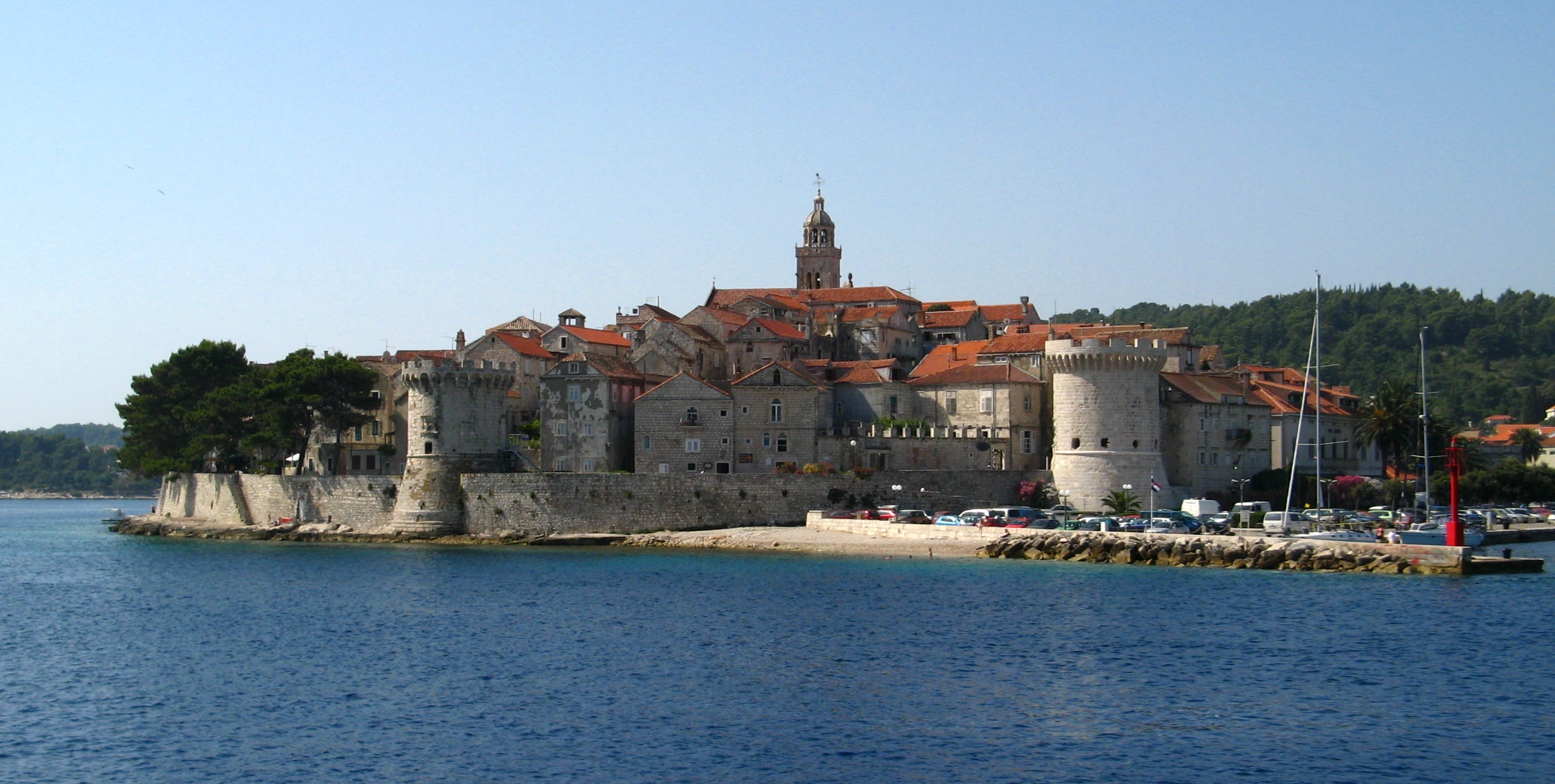 Korcula (Croatia)